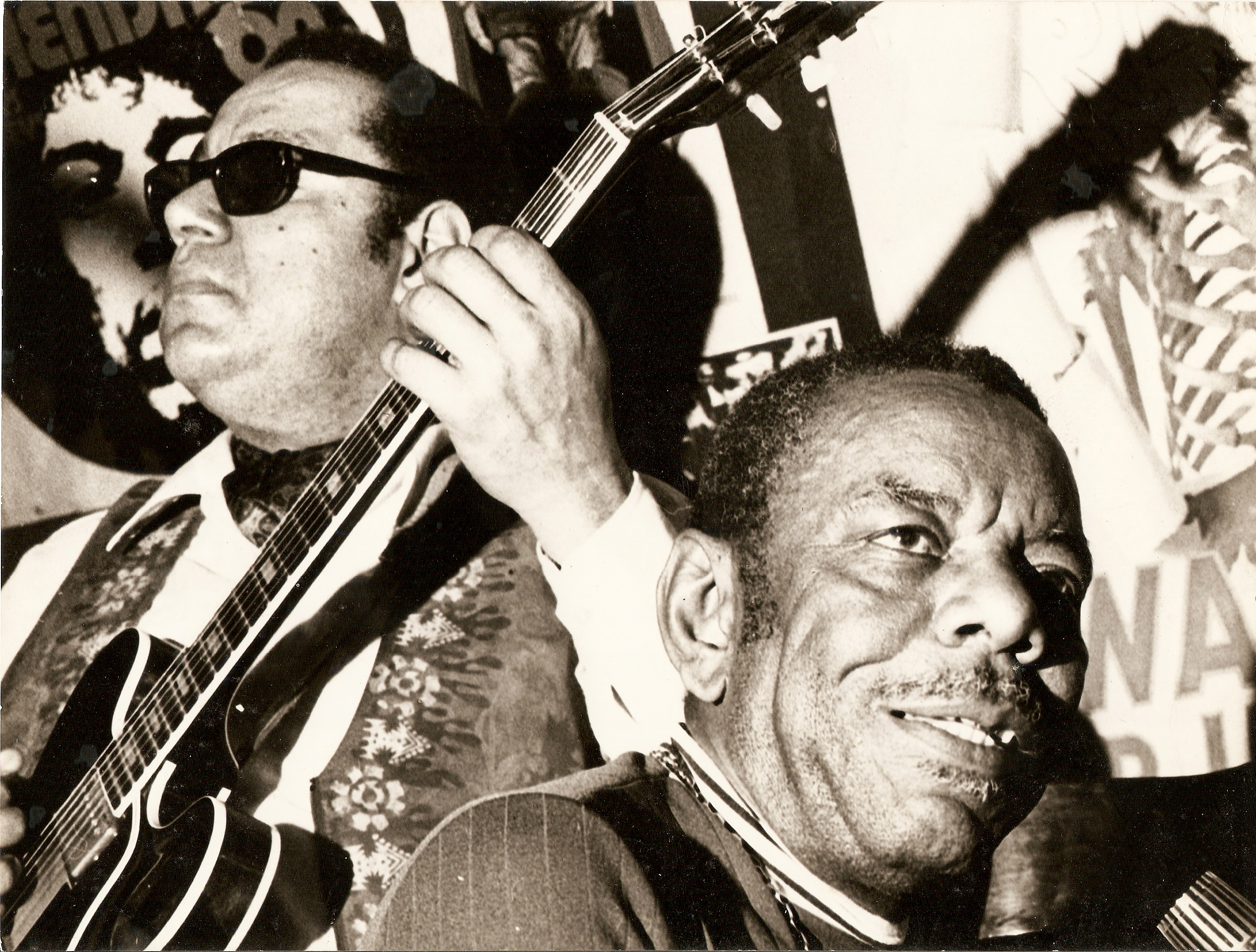 Champion Jack Dupree & Mickey Baker in the old Sinkkasten